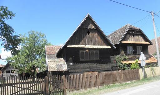 Letovanić